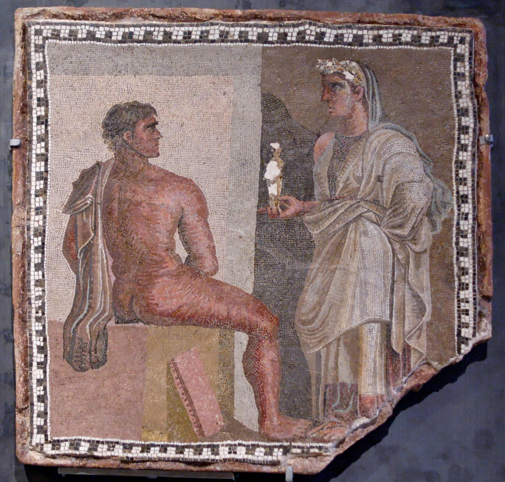 Mosaic representing Orestes and Iphigeneia. Stone on terracotta, Roman artwork, 2nd-3rd centuries CE.